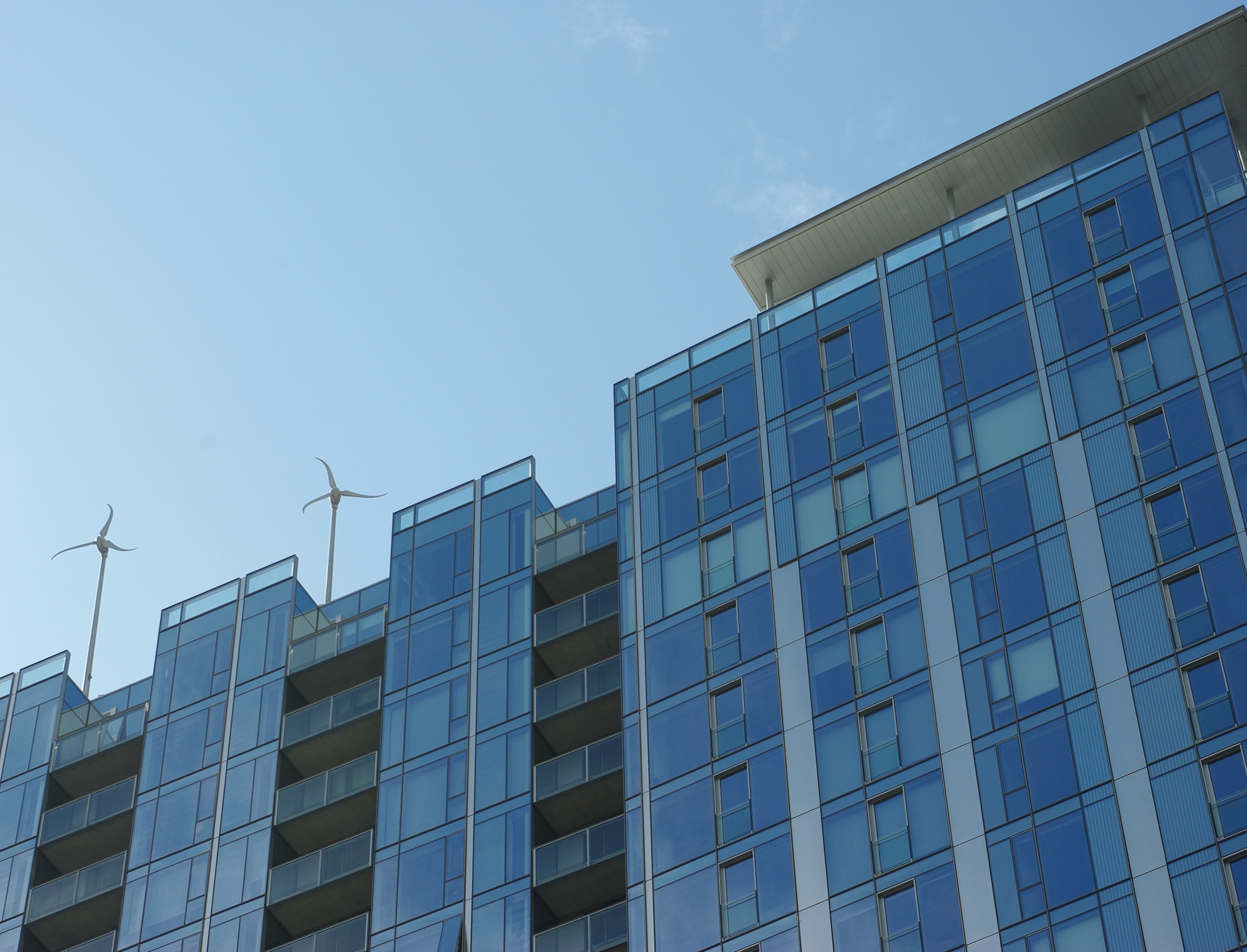 twelve west (building) in Portland, Oregon.